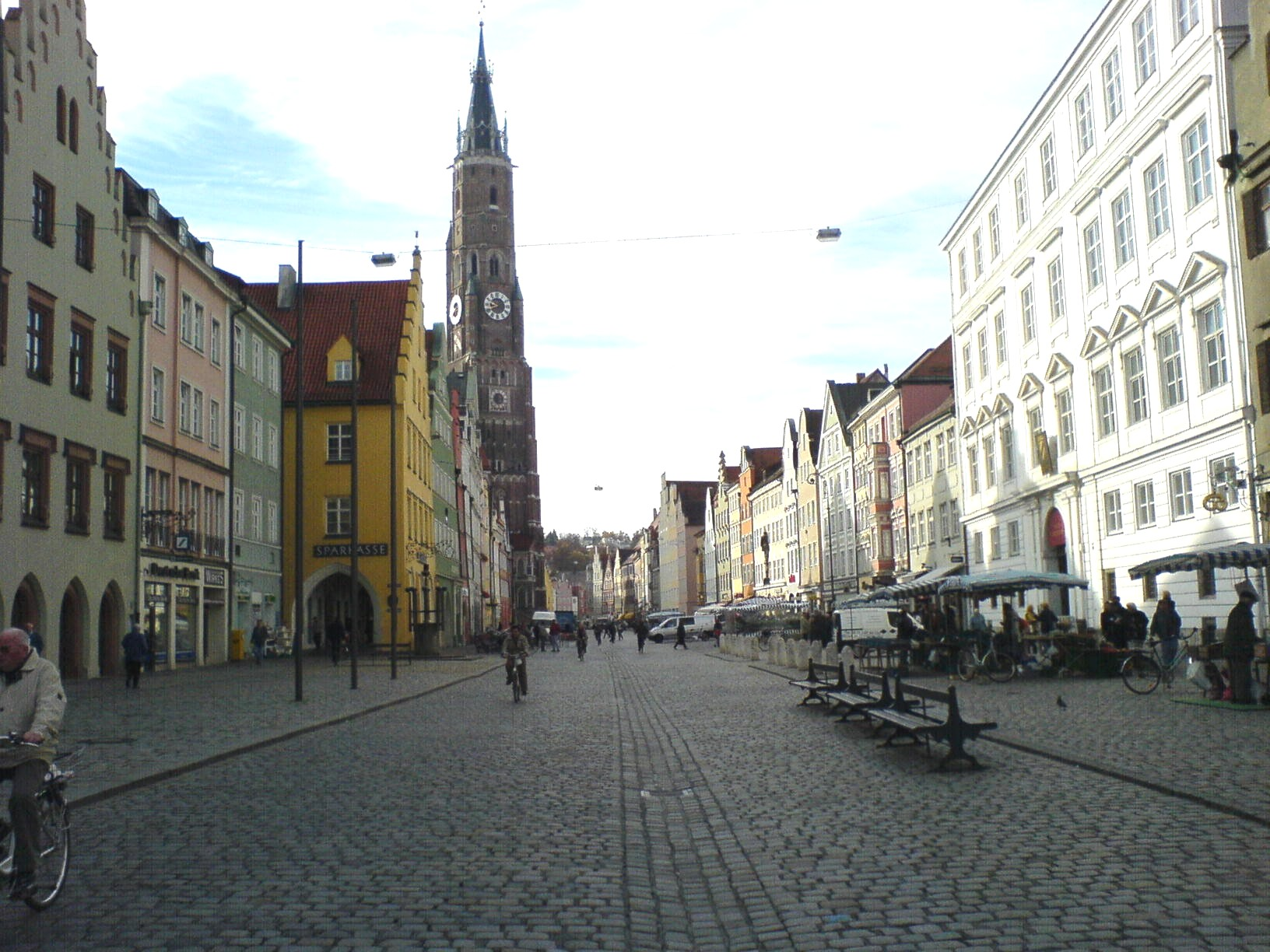 View of Landshut (Germany) pedestrian zone, with Saint Martin's church featuring the world's tallest brick-tower in the background